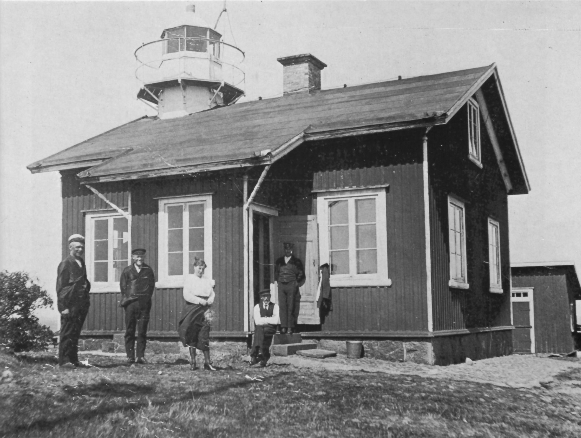 Island of Furö outside Oskarshamn in 1920s.